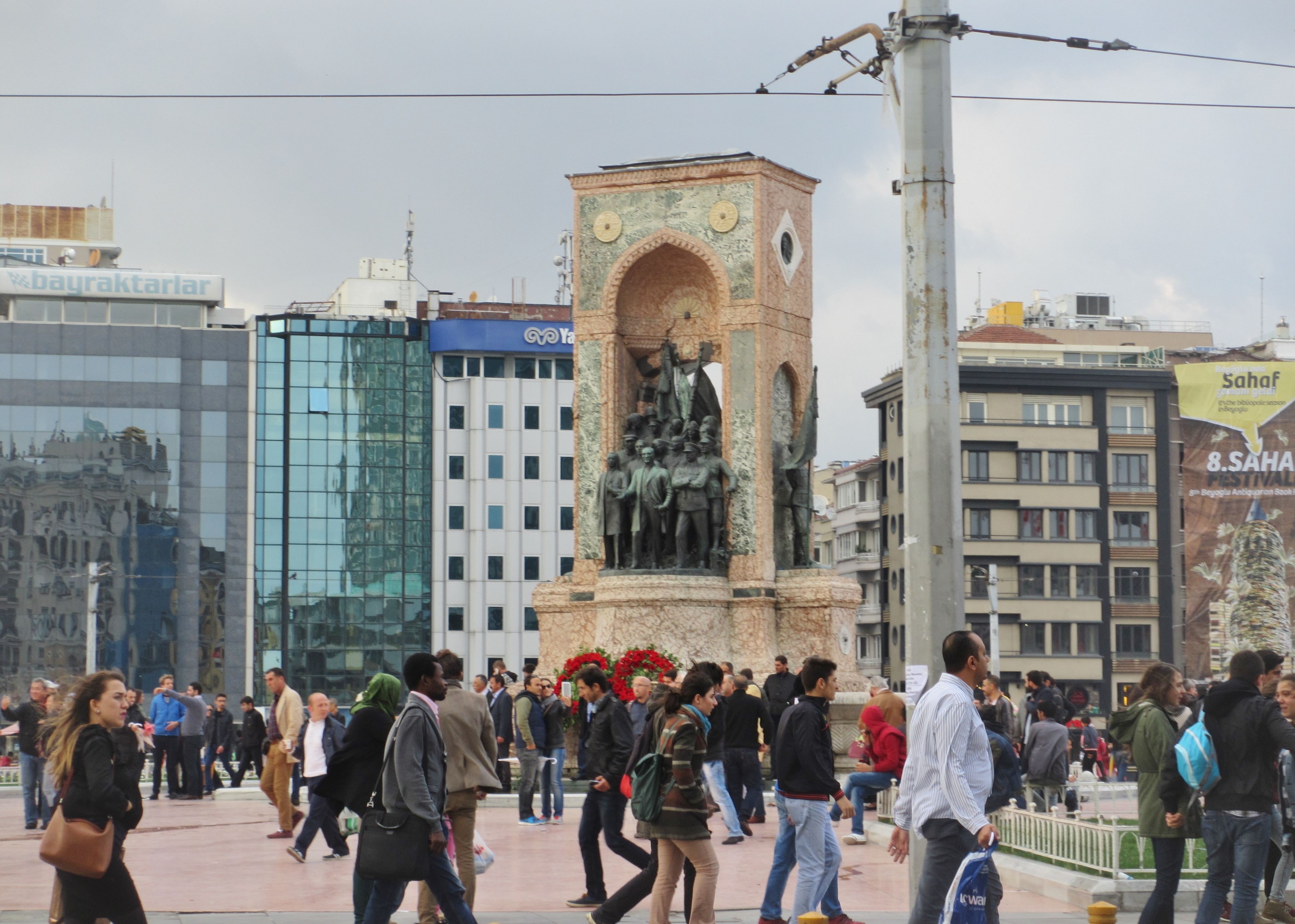 Monument of the Republic, Taksim Square, Istanbul